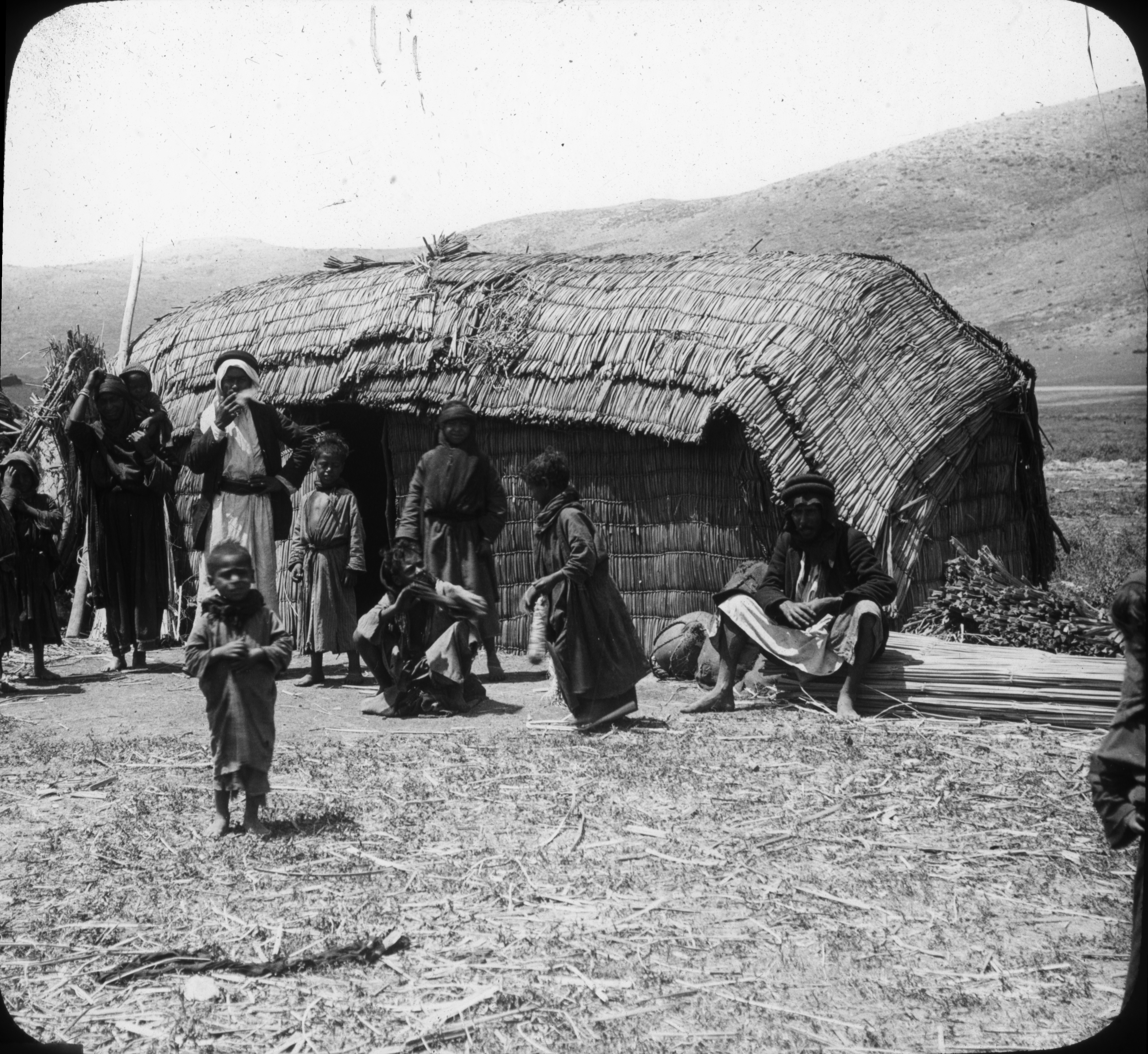 Bedouins in the Hula Valley, Architecture of Israel